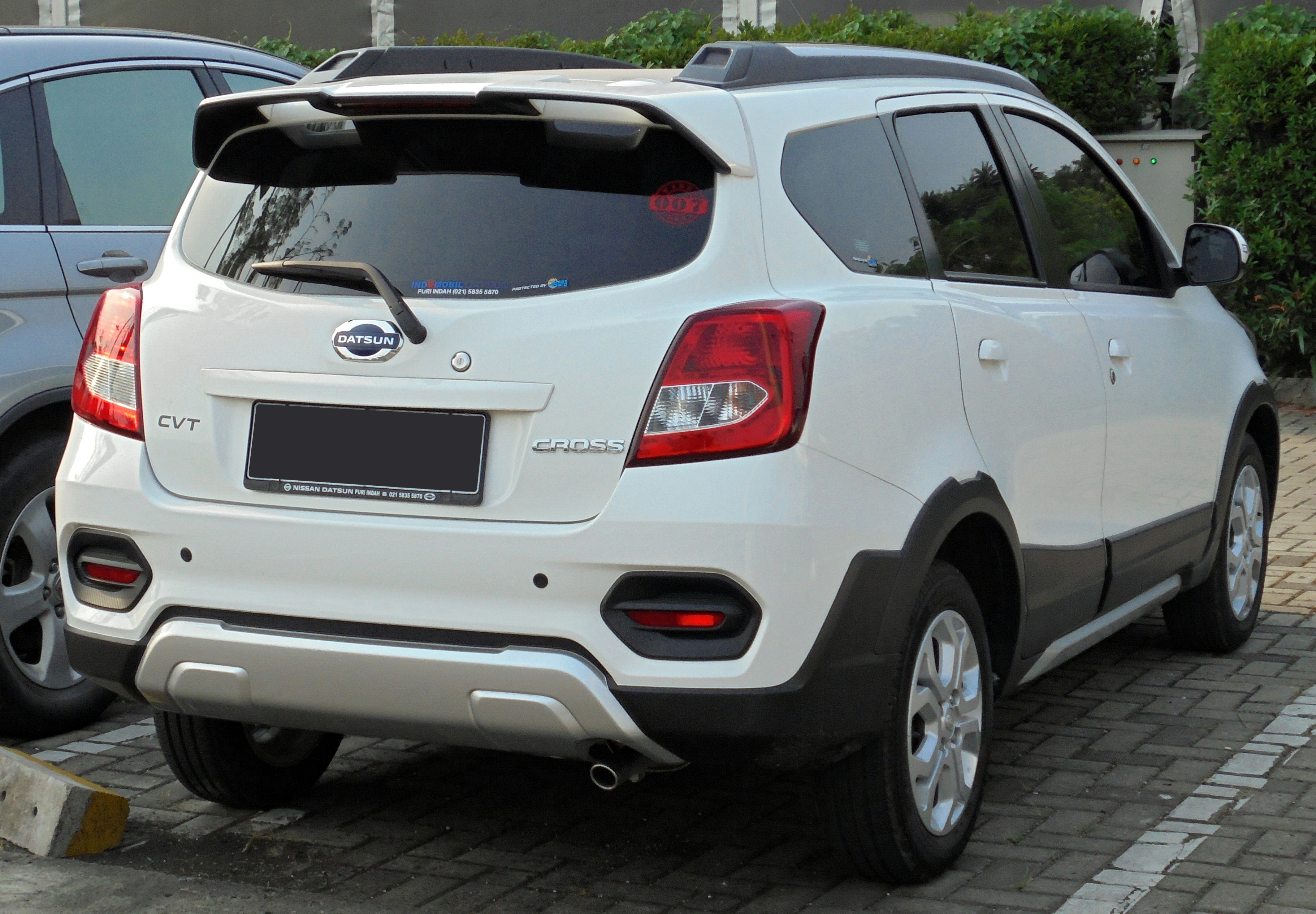 2018 Datsun Cross 1.2 (AD0)